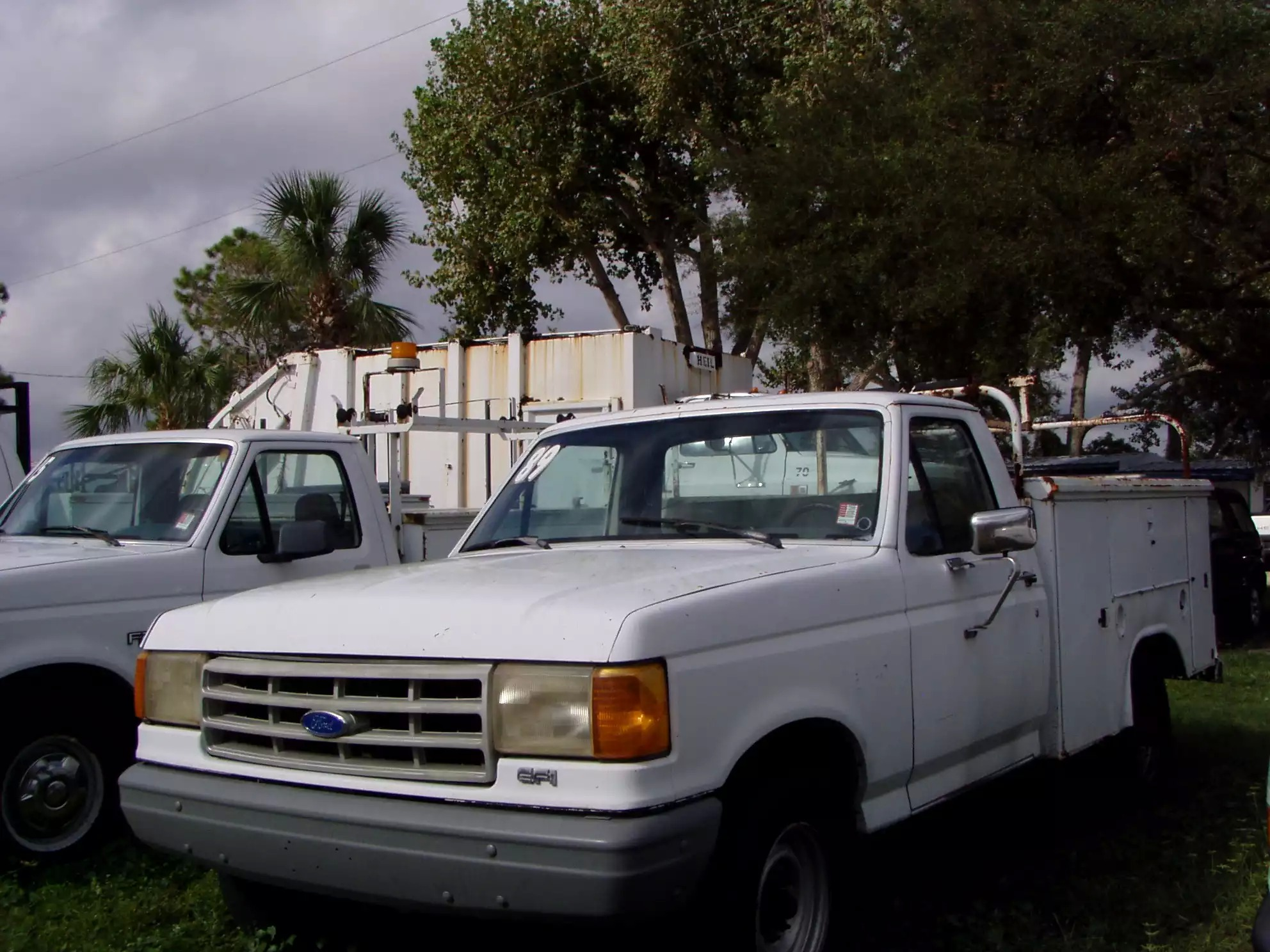 F250 utility service truck.jpg